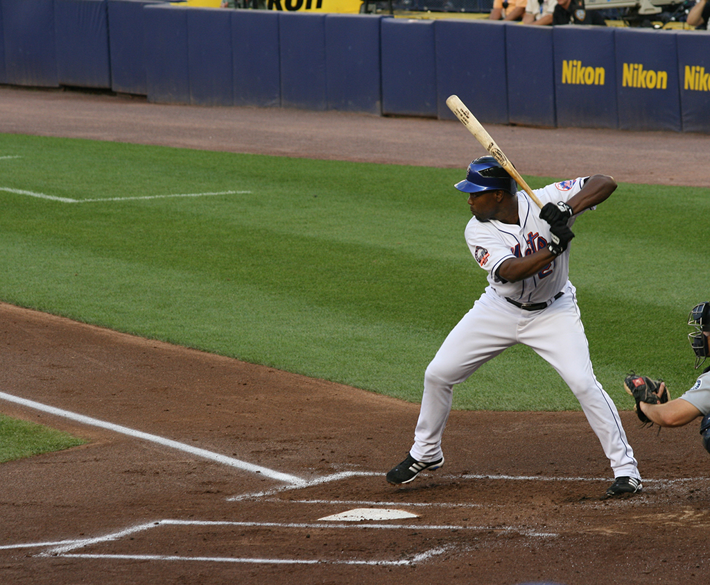 Carlos Delgado of the New York Mets at bat on June 25th, 2008 against the Seattle Mariners in a Major League Baseball game played in Shea Stadium.